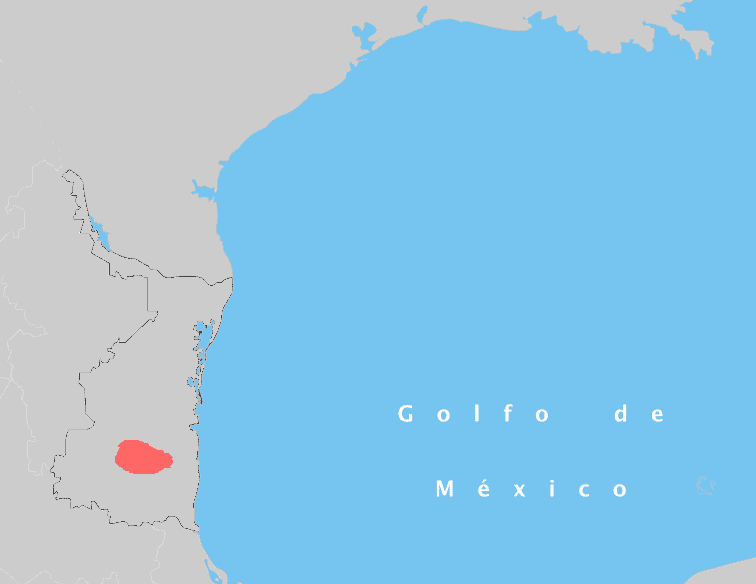 Approximate language area for maratino language